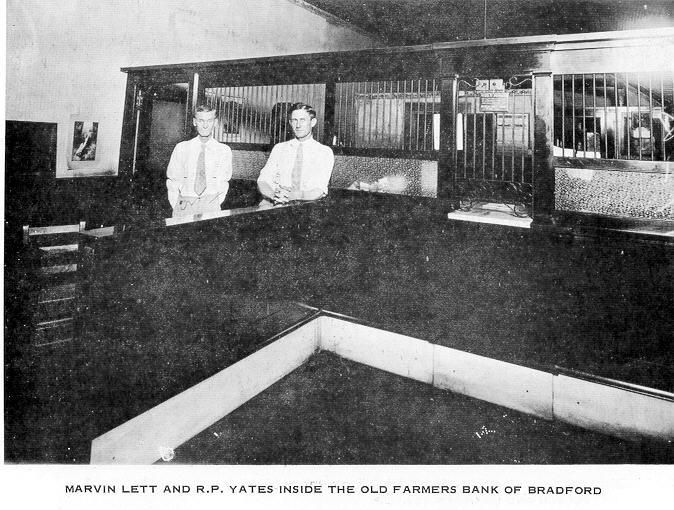 Bradford Bank, July 20, 1919, in Bradford, Tennessee.